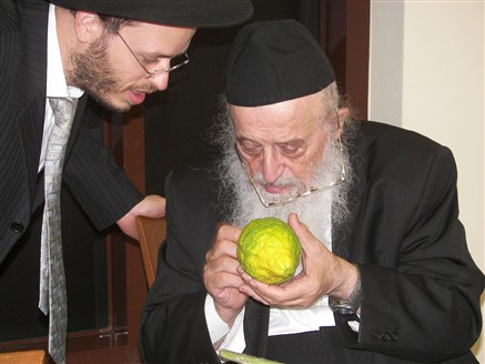 Rabbi Meir Tzvi Bergman examines a student\'s prior Etrog Sukkot